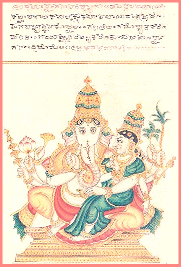 Reproduction from the Śrītattvanidhi ("The Illustrious Treasure of Realities"), an iconographic treatise compiled in the 19th century in Karnataka, India, by order of the then Maharaja of Mysore, Krishnaraja Wodeyar III (b. 1794 - d. 1868).